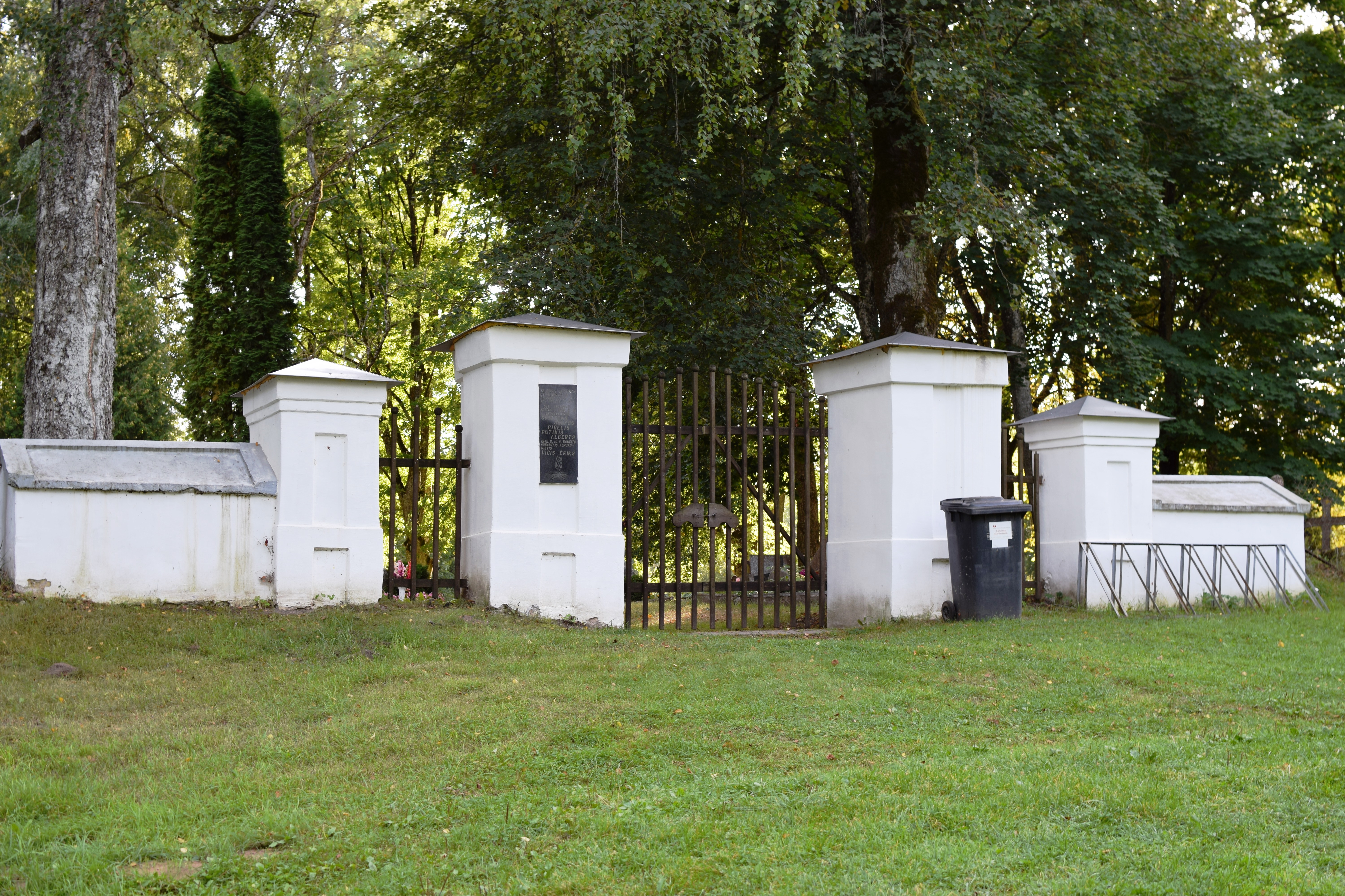 Priekule Municipality